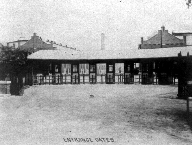 Postcard photo of the entrance gates of the Pullman Company's Calumet plant.